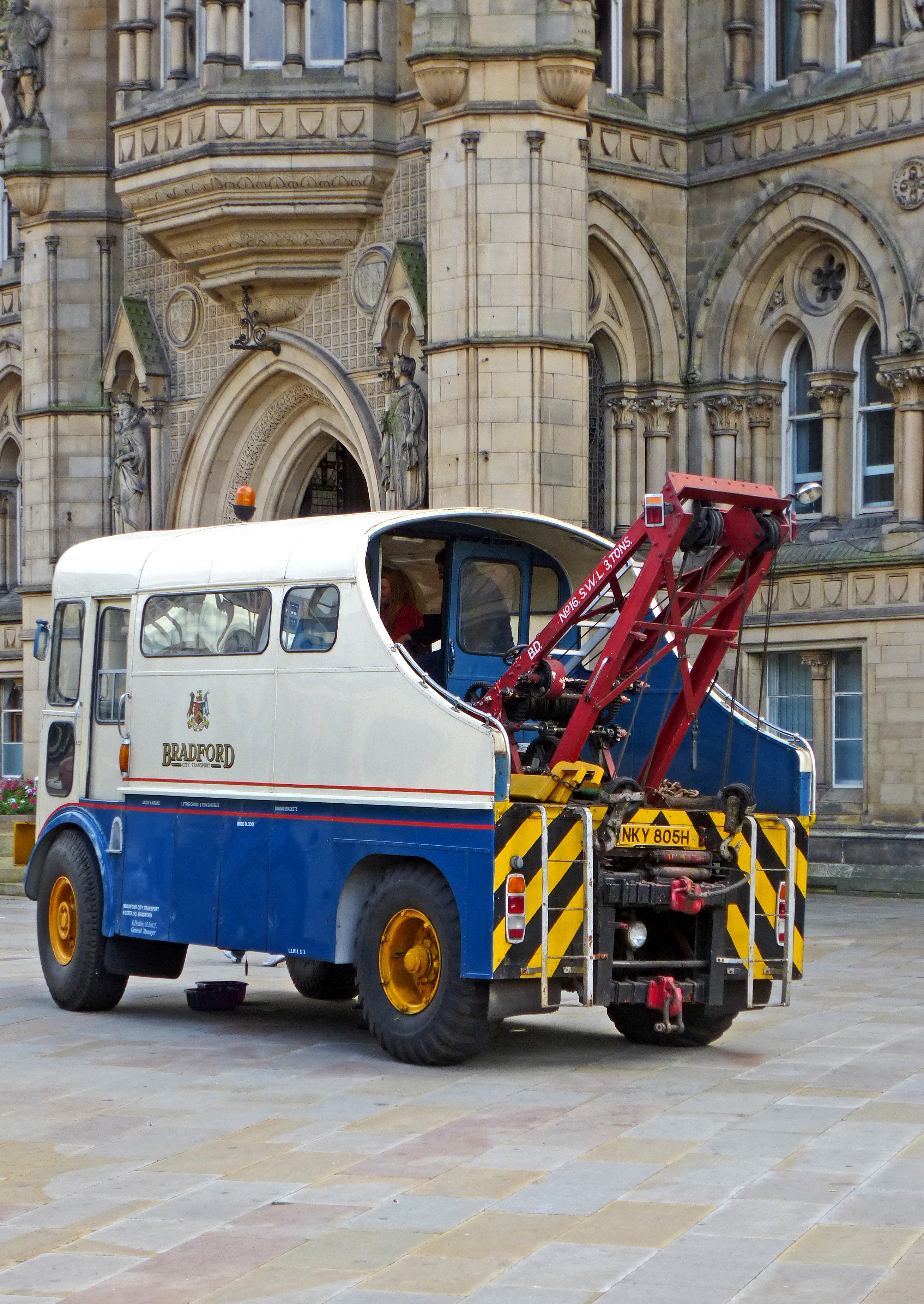 1970 Bradford City Transport AEC Matador tow truck NKY805H